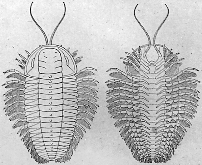 Triarthrus becki, showing the appendages. According to recent literature the species depicted, even though it is called Triarthrus becki by Beecher himself in the caption, is in fact Triarthrus eatoni.[1] ↑ (1983). "A revision of the Ordovician olenid trilobite Triarthrus". Geological Magazine 120 (6): 567–577.